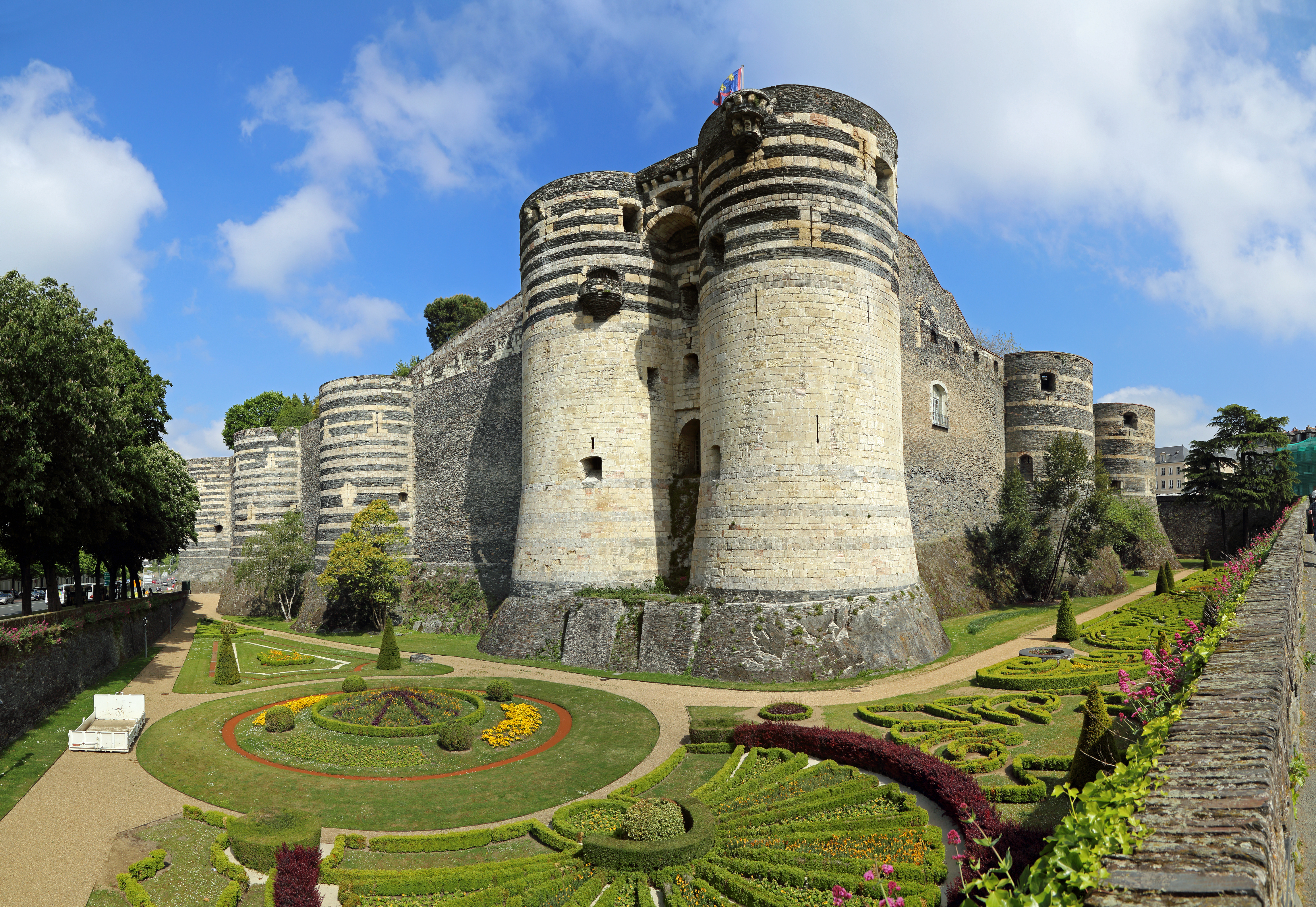 Angers (France): the castle